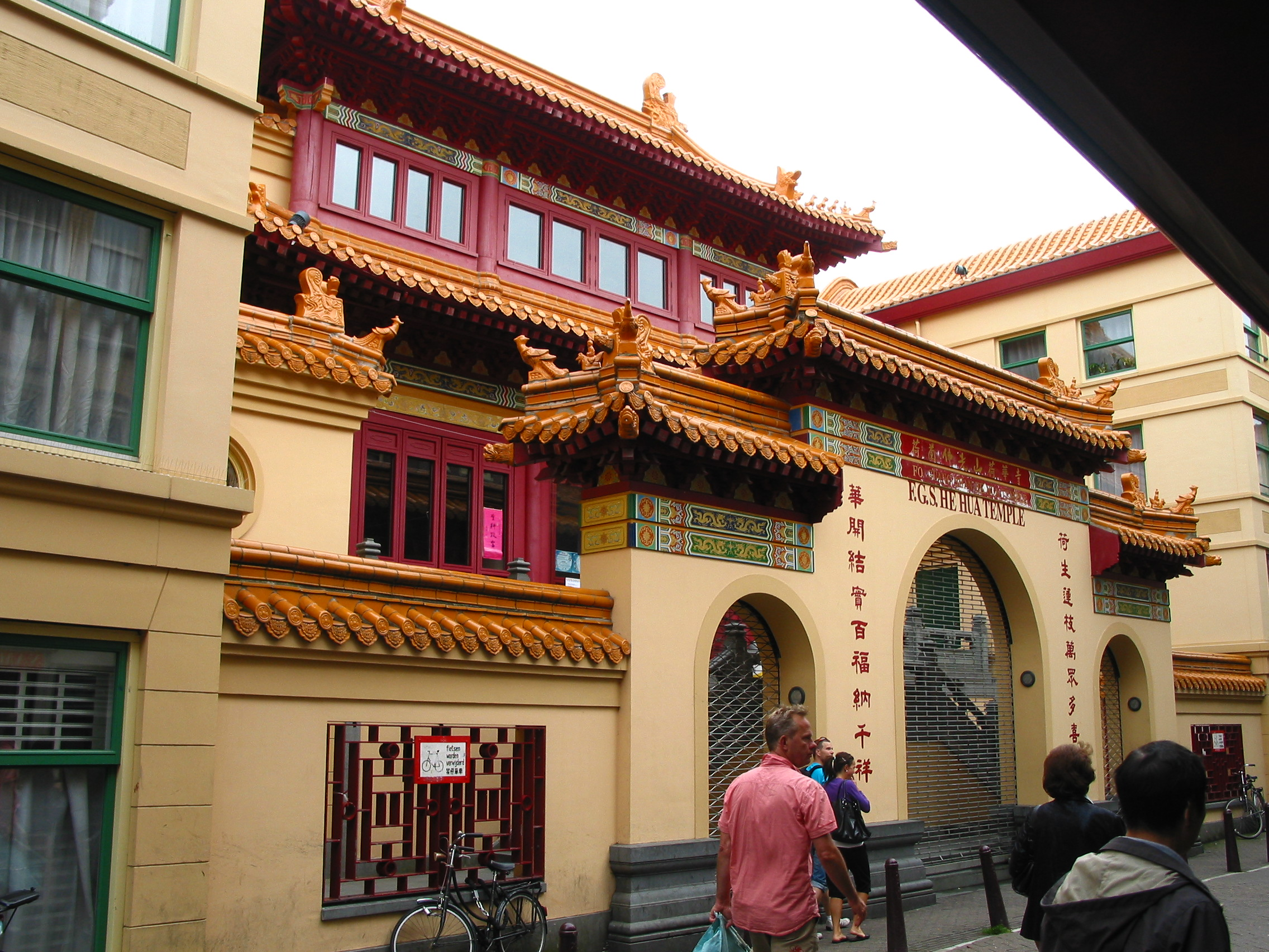 He Hua tempel